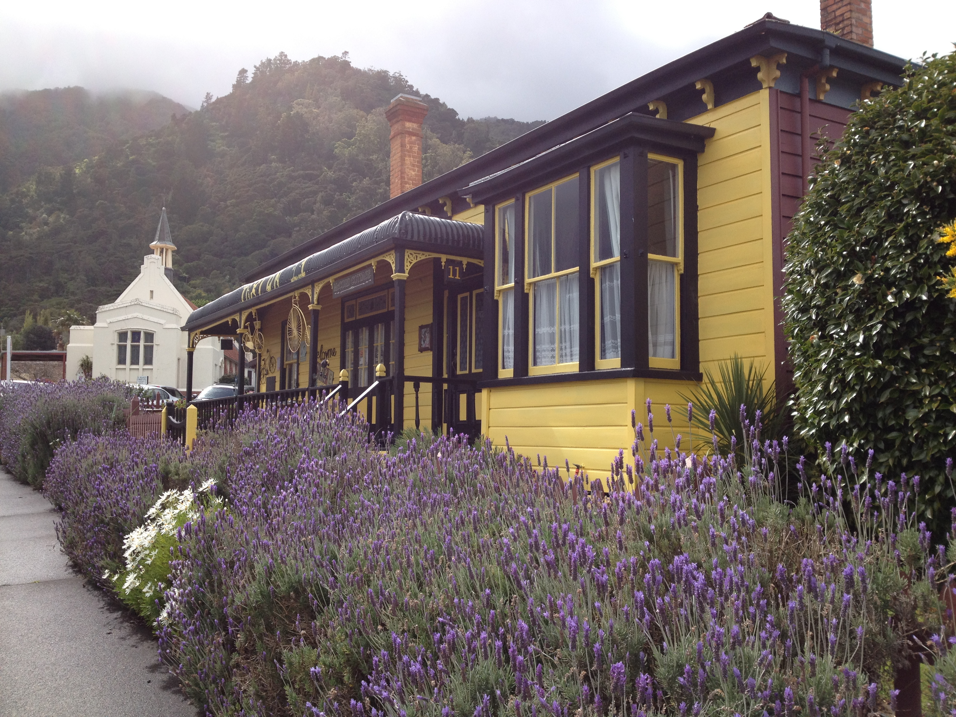 Miners cottage with lavendar border opposite St Marks Church, Te Aroha, New Zealand